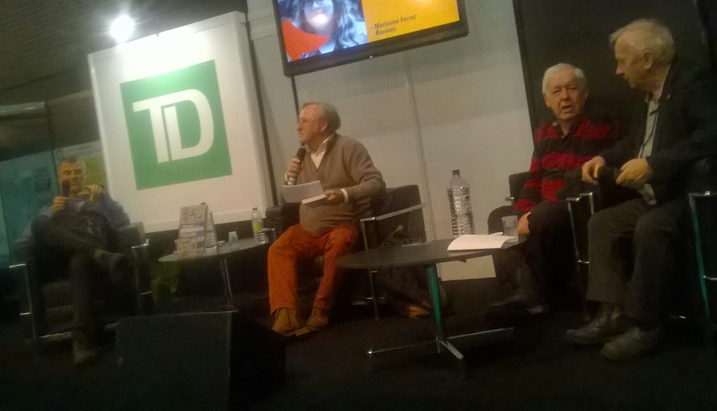 Gilles Laporte, Robert Comeau, Denis Vaugeois & Jacques Mathieu photographed in Montréal , Québec, Canada at the Salon du livre de Montréal 2018.